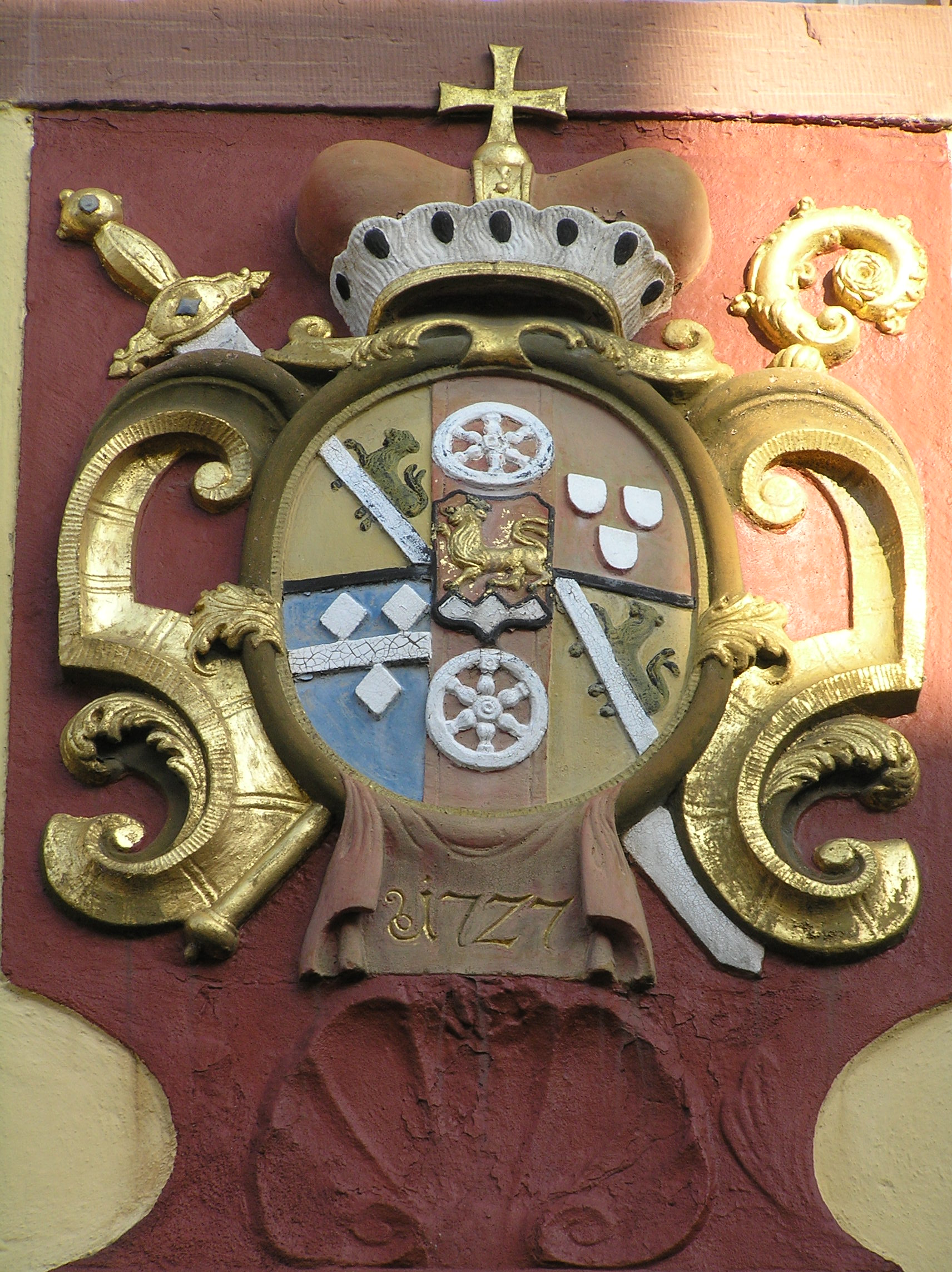 Coat of Arms of Kurfürst Lothar Franz Freiherr von Schönborn at the front of the Amtsgericht Königstein (Taunus)